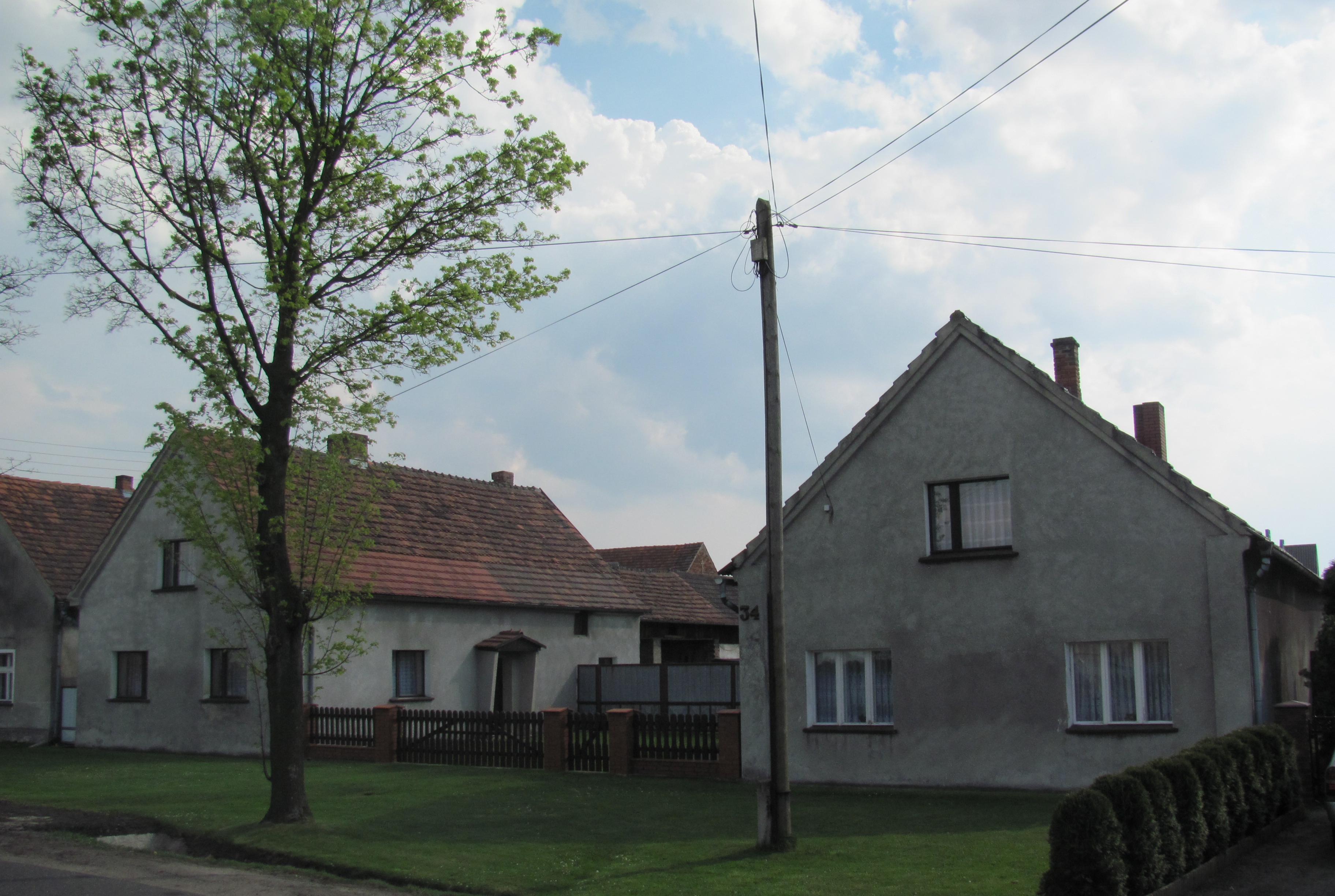 Historic crofts from the 2nd quarter of XIXth century in Brynica